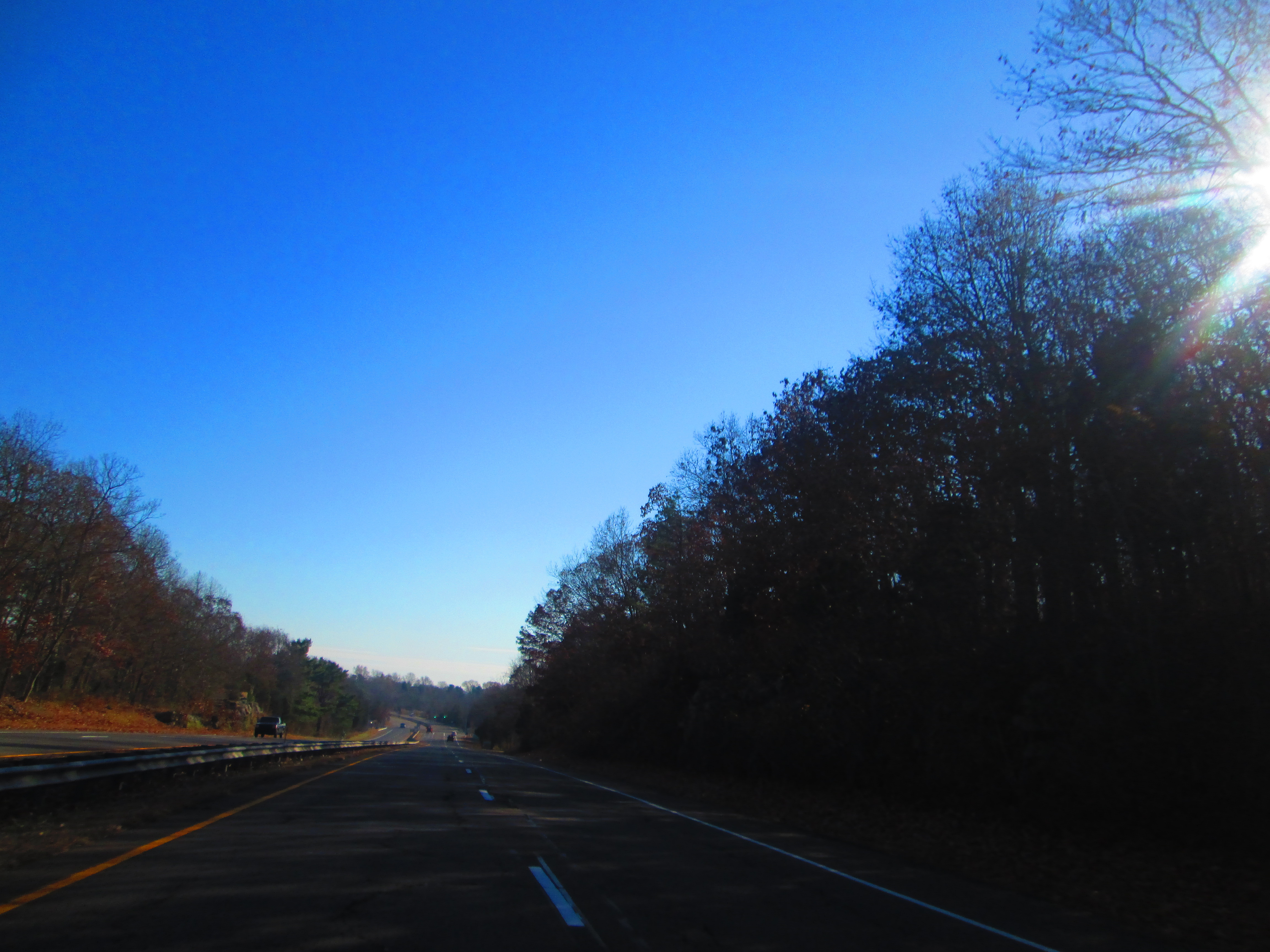 Hamonasset Connector to Hammonasset State Park.